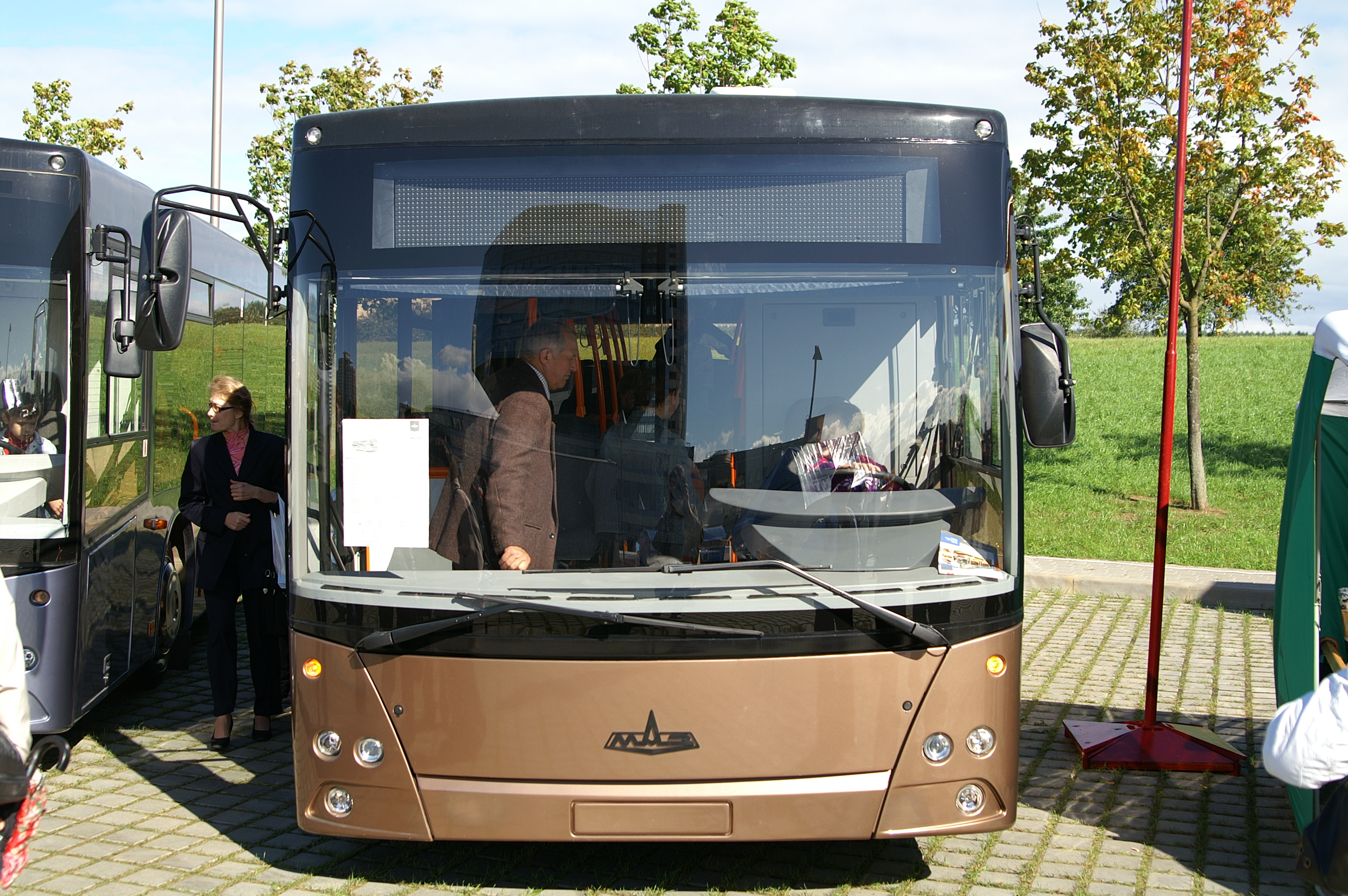 Belarusian bus MAZ-206 in Minsk, Belarus. Built 2006.